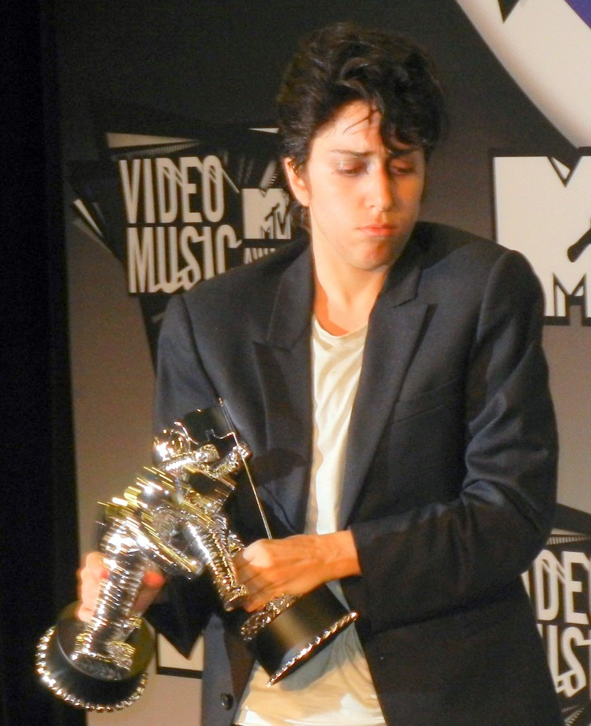 Lady Gaga at MTV Video Music Awards 2011.